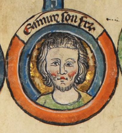 Edmund Crouchback